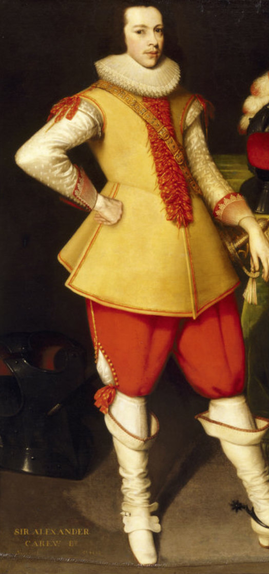 Alexander carew